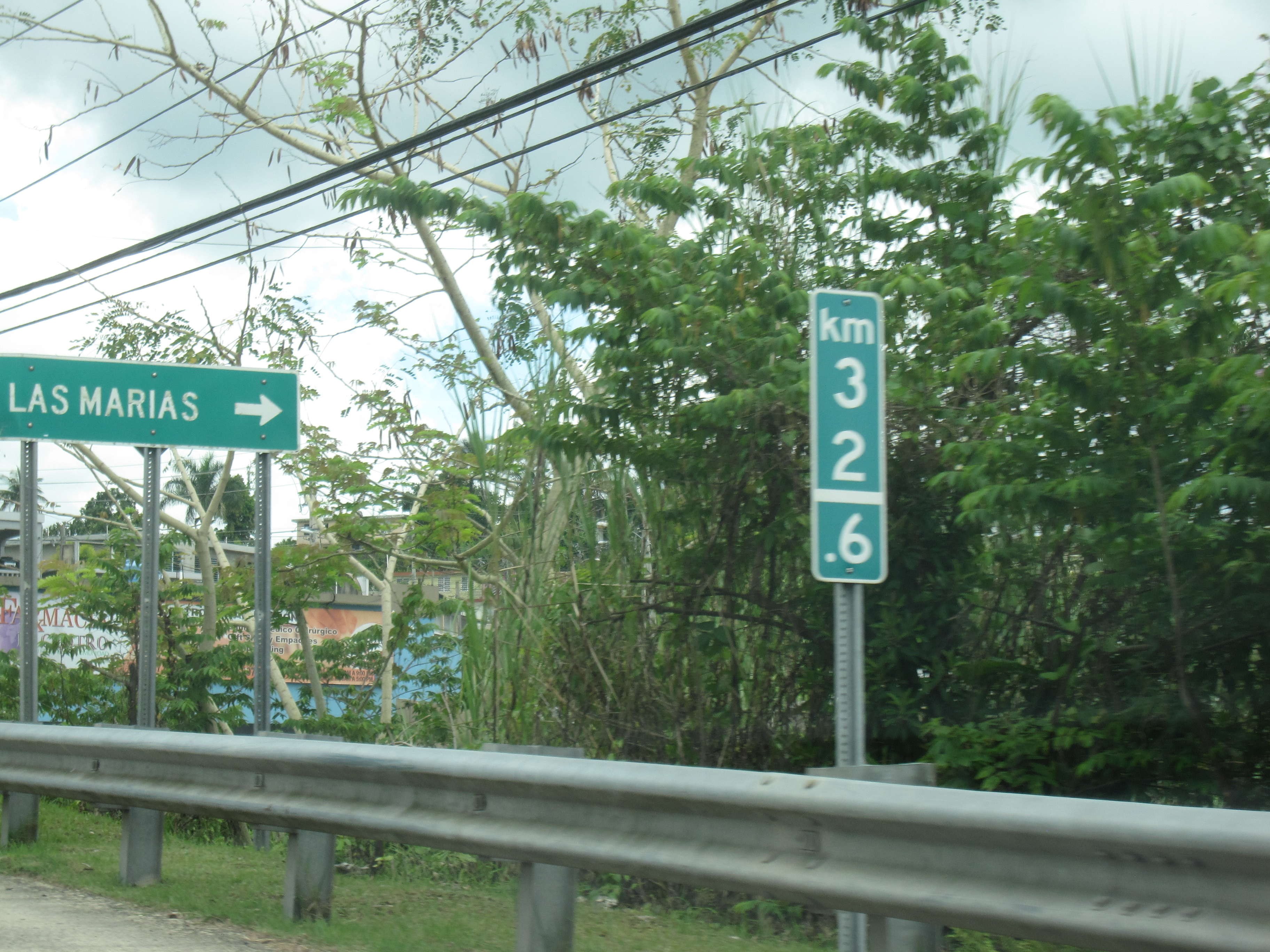 Las Marias sign on Puerto Rico Highway 111